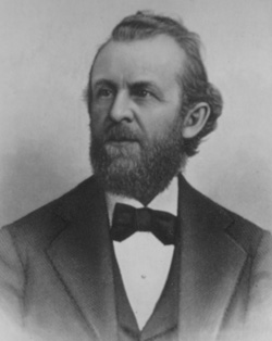 William Samuel Godbe, remembered for leading a schismatic faction of the LDS Church called the Church of Zion, better known as the "Godbeites".